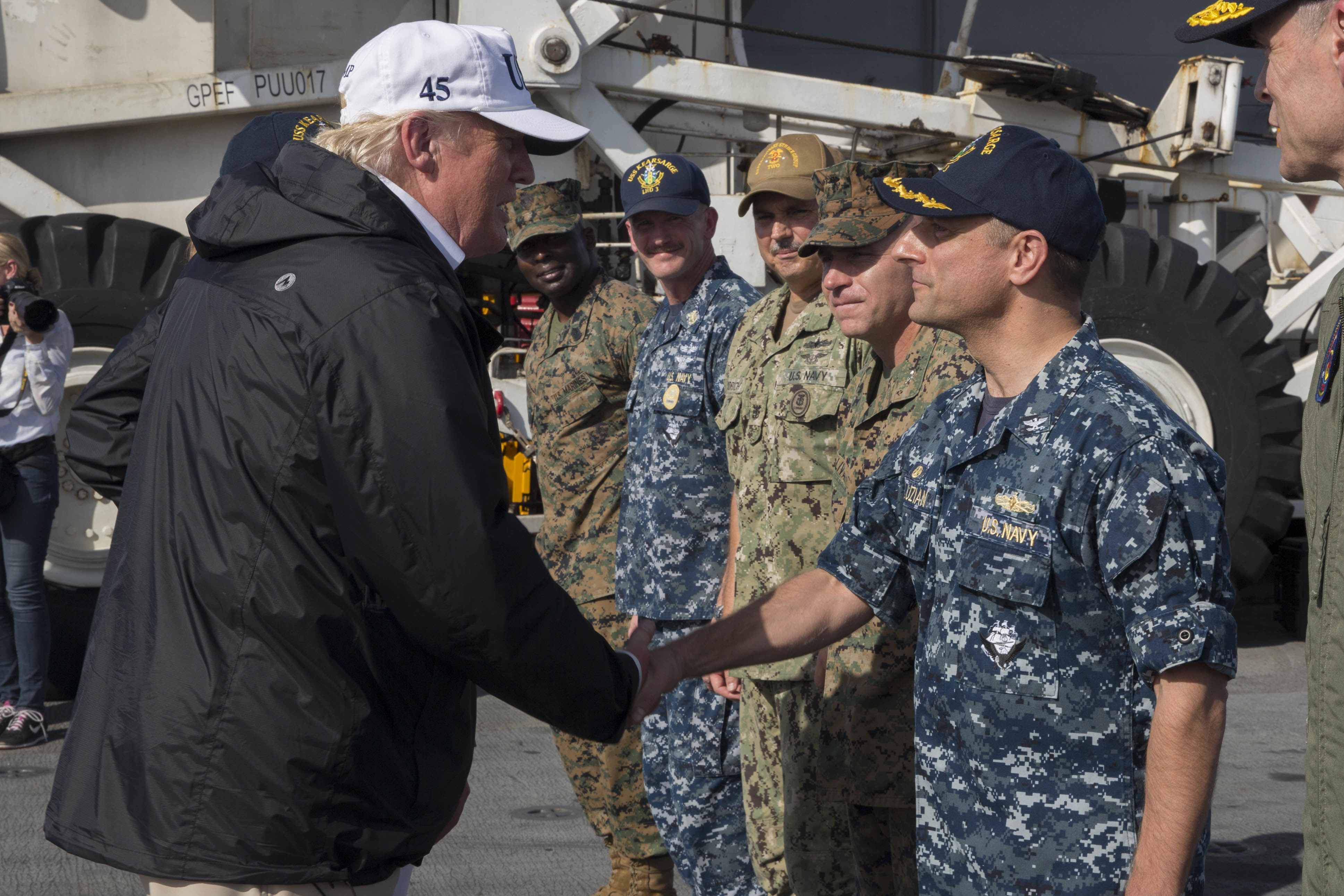 171003-N-MC499-265 CARIBBEAN SEA (Oct. 3, 2017) President Donald Trump shakes hands with Capt. David Guluzian, commanding officer of the amphibious assault ship USS Kearsarge (LHD 3) during a visit to the ship to discuss ongoing operations in Puerto Rico and the U.S. Virgin Islands. Kearsarge is assisting with relief efforts in the aftermath of Hurricane Maria. The Department of Defense is supporting the Federal Emergency Management Agency, the lead federal agency in helping those affected by Hurricane Maria to minimize suffering and is one component of the overall whole-of-government response effort. (U.S. Navy photo by Mass Communication Specialist 3rd Class Dana D. Legg/Released)